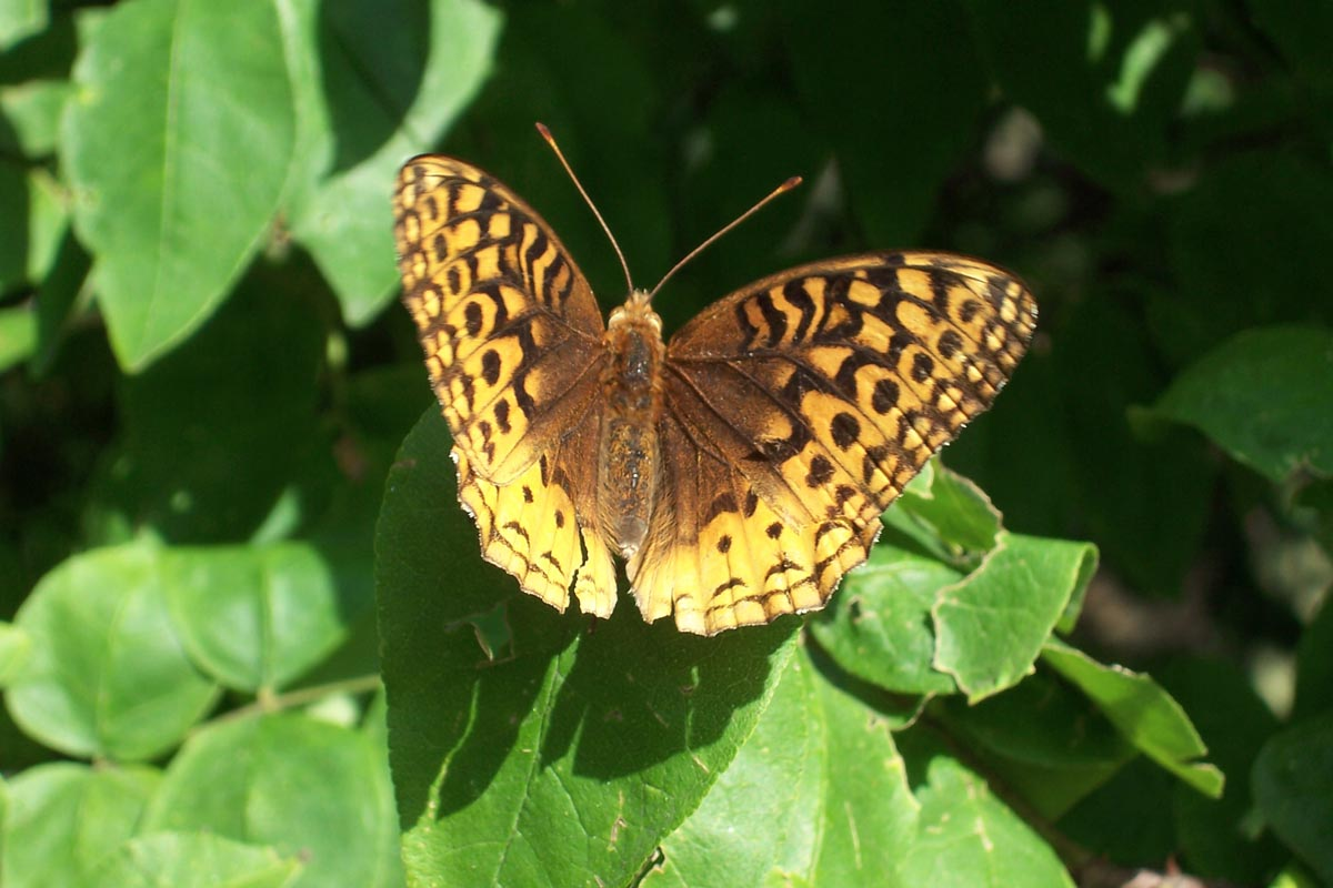 A Great Spangled Fritillary (Speyeria cybele) butterfly. This specimen was found on the grounds of the Wehr Nature Center at Whitnall Park, in Hales Corners, Wisconsin.